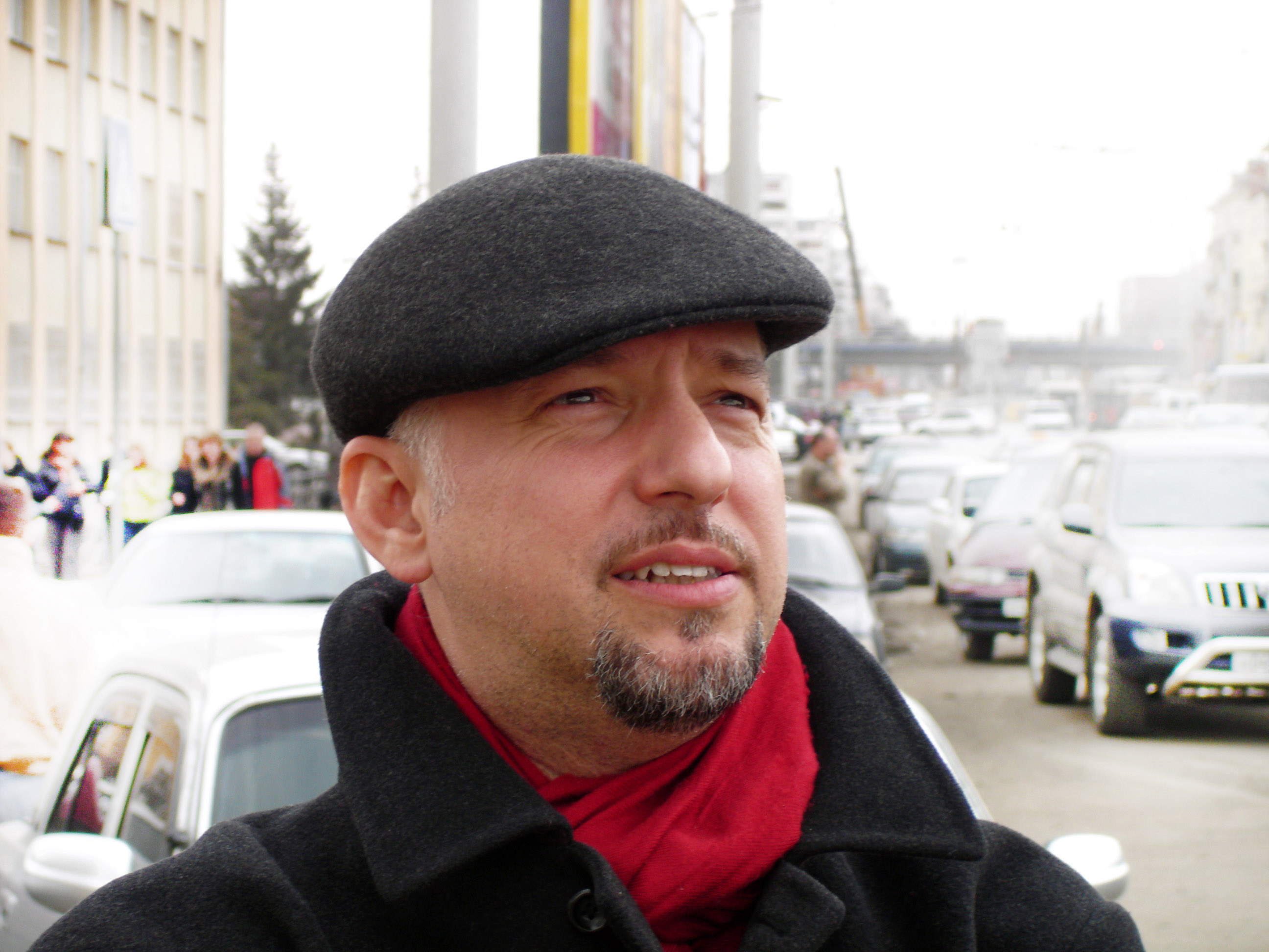 Drummer Mario Gonzi